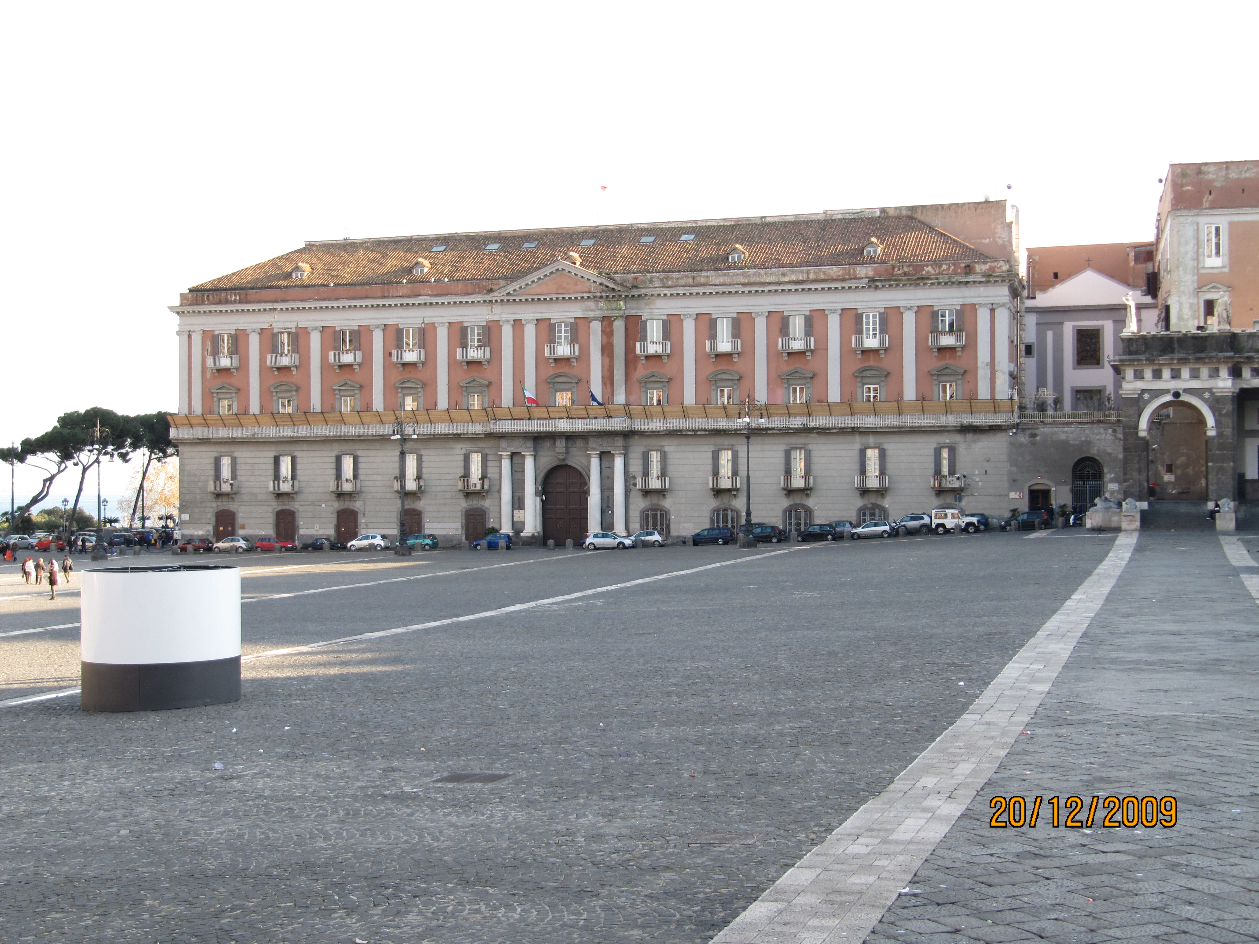 Facade